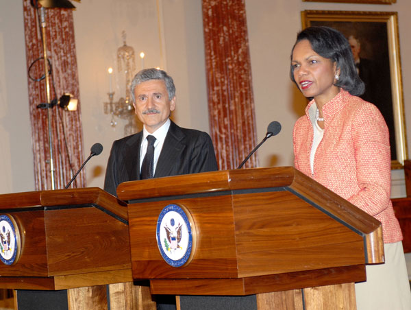 Secretary Rice with Italian Deputy Prime Minister and Minister of Foreign Affairs Massimo D'Alema speak to the press after their meeting.